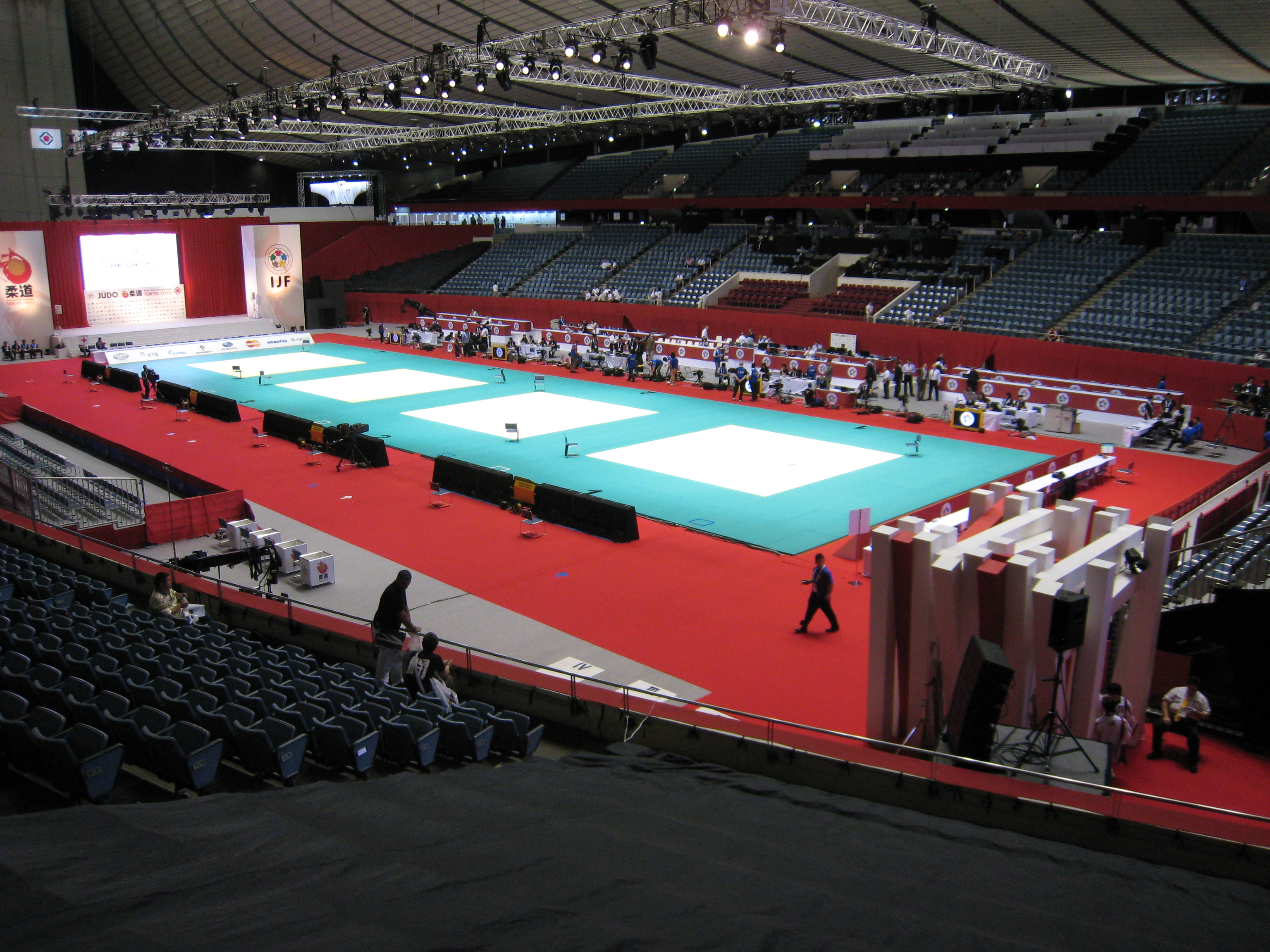 Judo_1